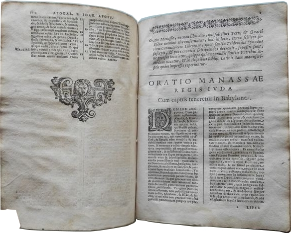 Sixto-Clementine Vulgate (1598) - Oratio Manassae